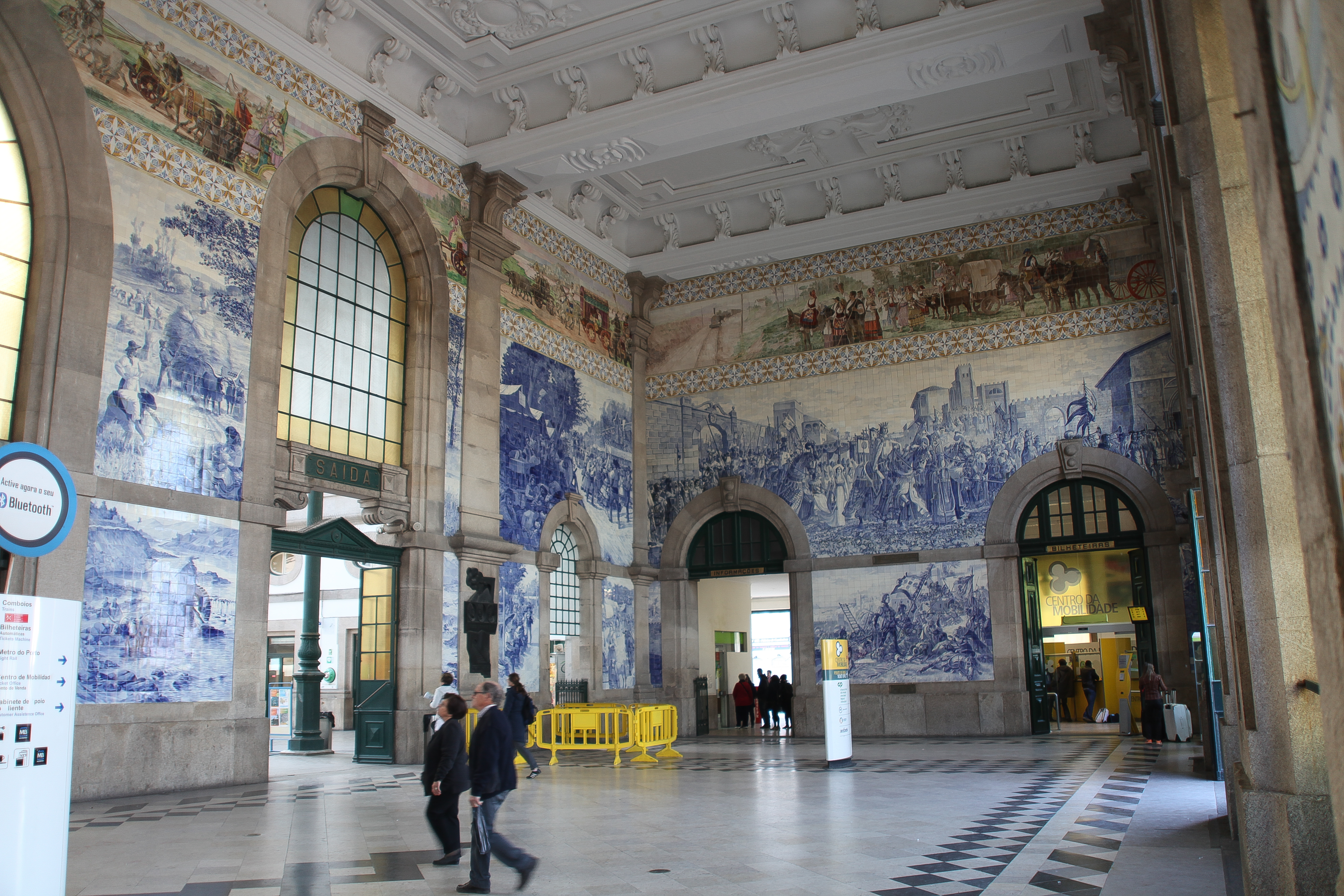 Great hall of Porto São Bento train station, Porto, Portugal